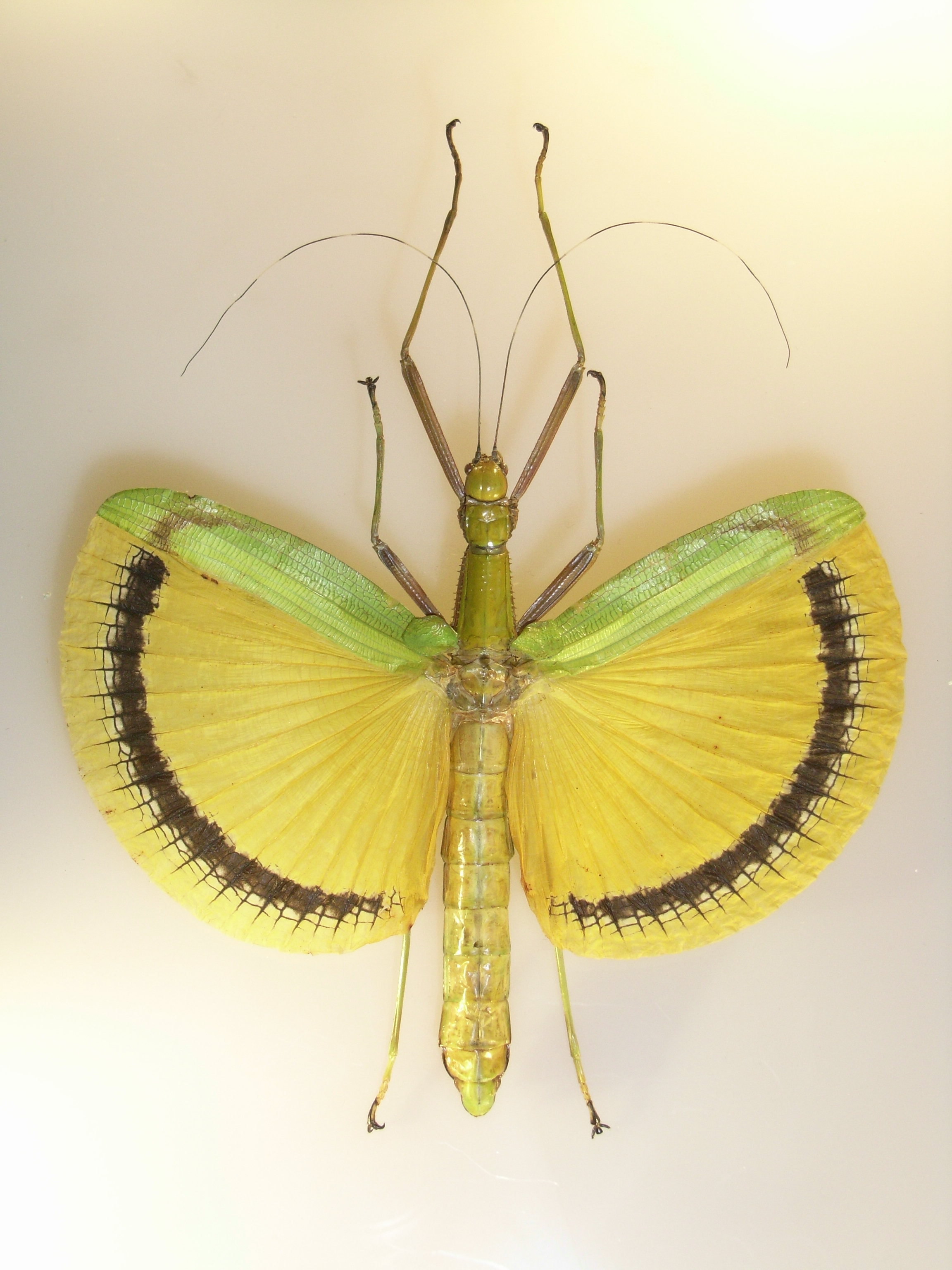 Tagesoidea nigrofasciata Phasmidae Ex coll. Felix Stumpe